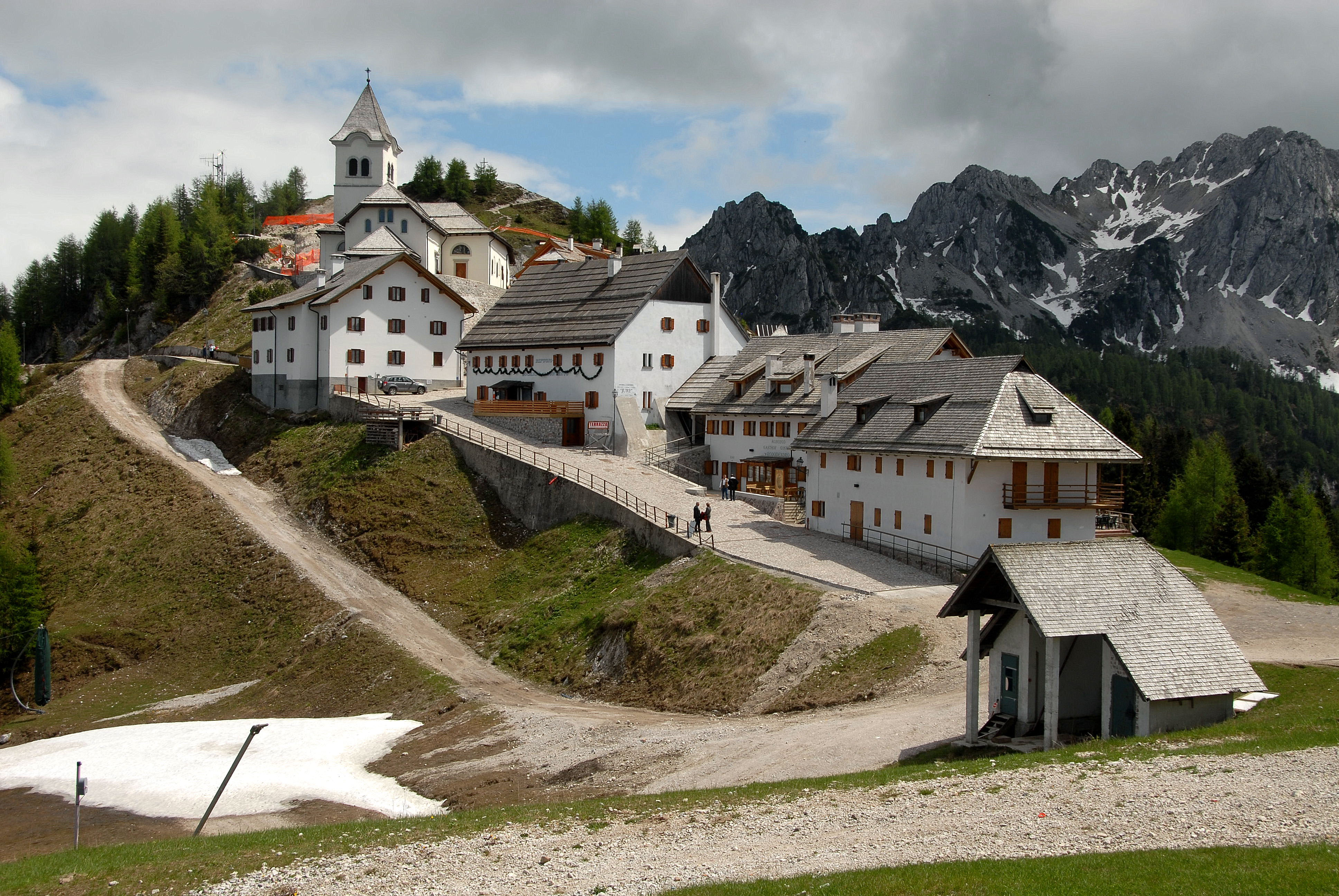 Monte Santo di Lussari with the Mountain "Cima del Cacciatore" in the background, situated in the community Tarvisio, province of Udine, region Friuli-Venezia Giulia, Italy